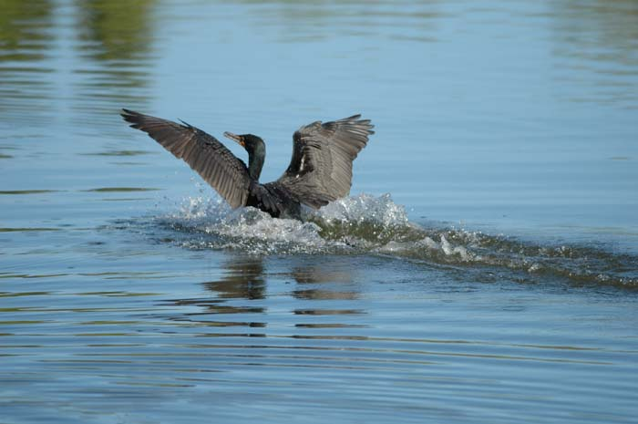 Photo taken by Mike DeLeonardis at Everglades National Park. Copyright 2005 Mike DeLeonardis